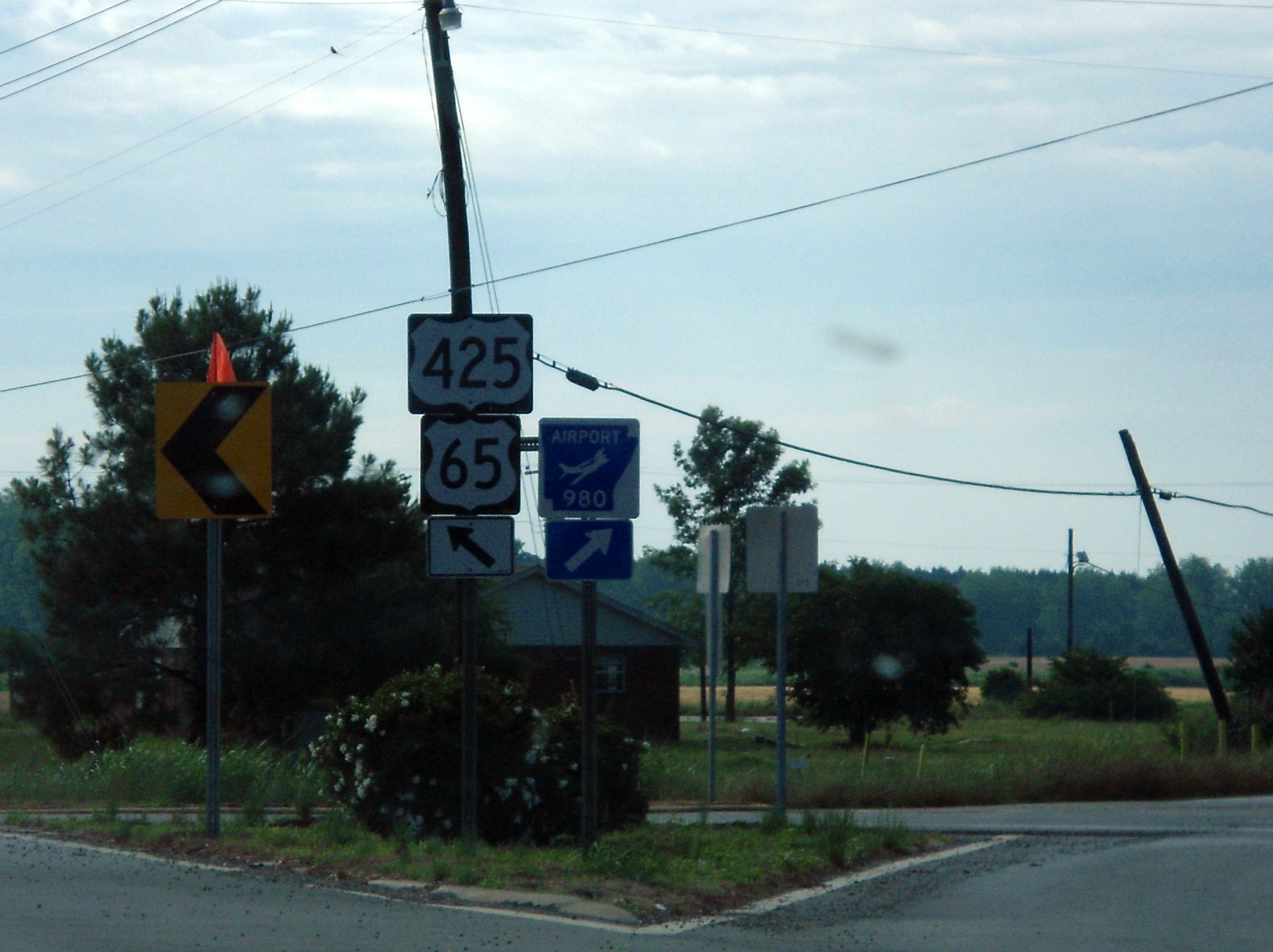 Highway 980 splits right and US 65/US 425 keep left in Pine Bluff, Arkansas